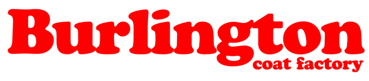 Burlington Coat Factory logo recreated from a yellowish white logo